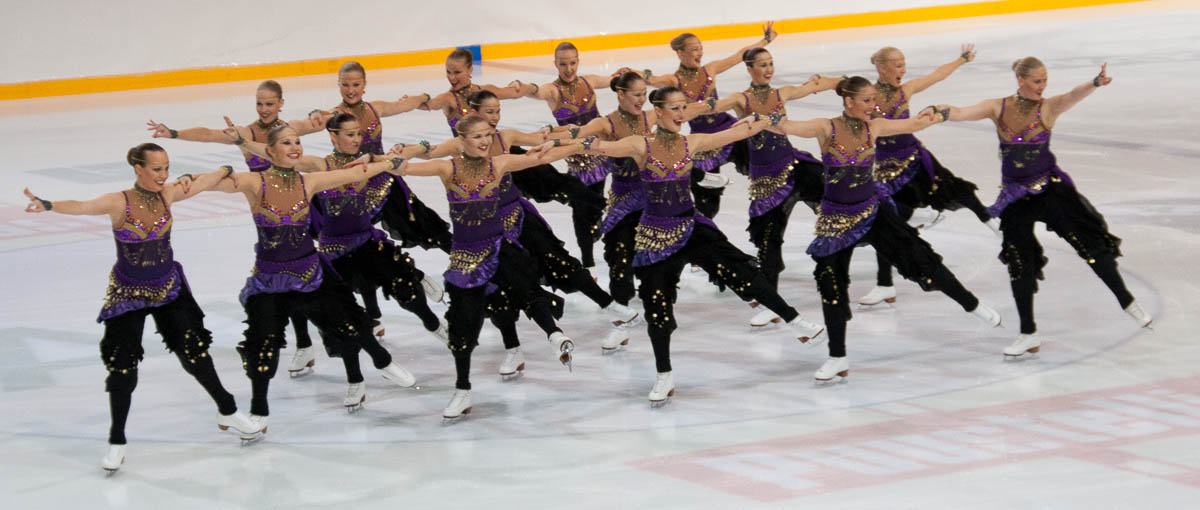 Rockettes, 2nd qualifier for Finnish championships, 2009 Helsinki